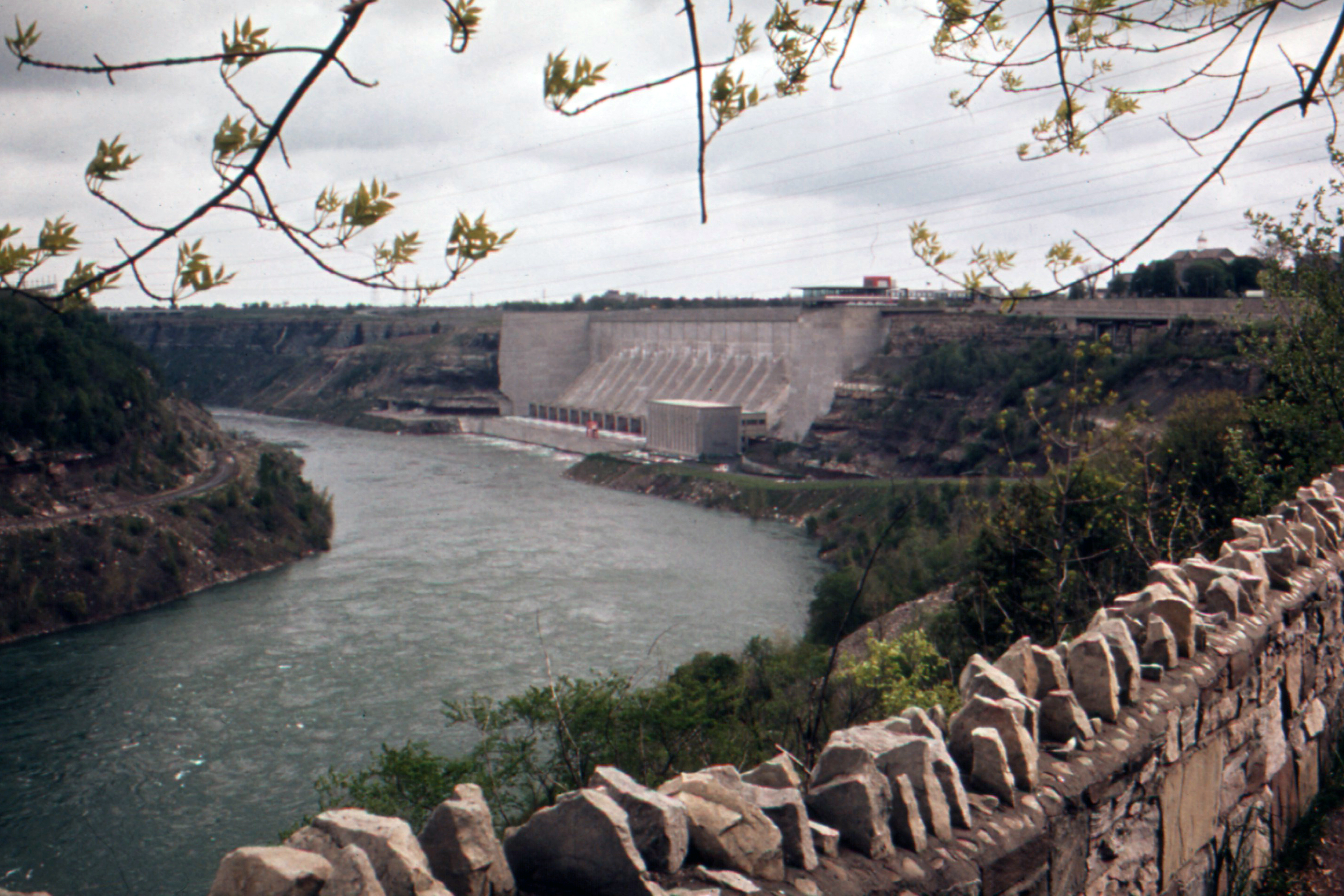 Modified (colour and sharpness enhanced) from the original, public domain photo by George Burns (NARA - 549486)